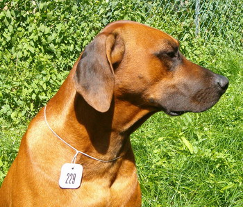 Shaka Zulu young male Rhodesian Ridgeback